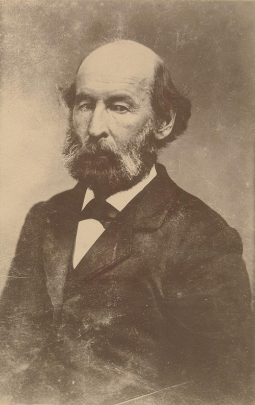 Portrait of Eli Thayer, a representative in the Massachusetts legislature and founder of the New England Emigrant Aid Company, Kansas Historical Society